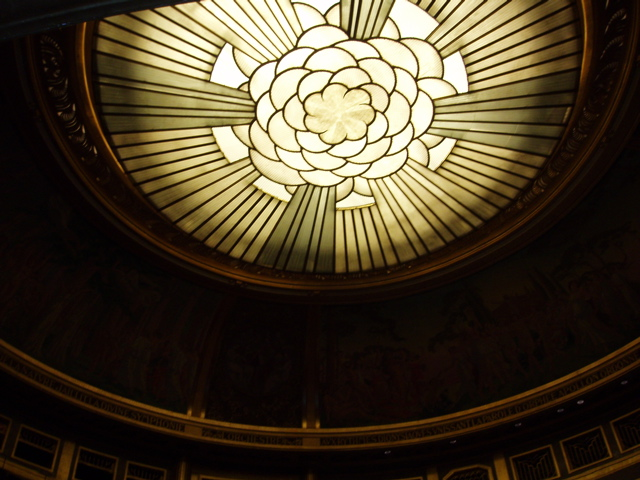 Ceiling of the Théâtre des Champs-Élysées (Paris), June 29th, 2006